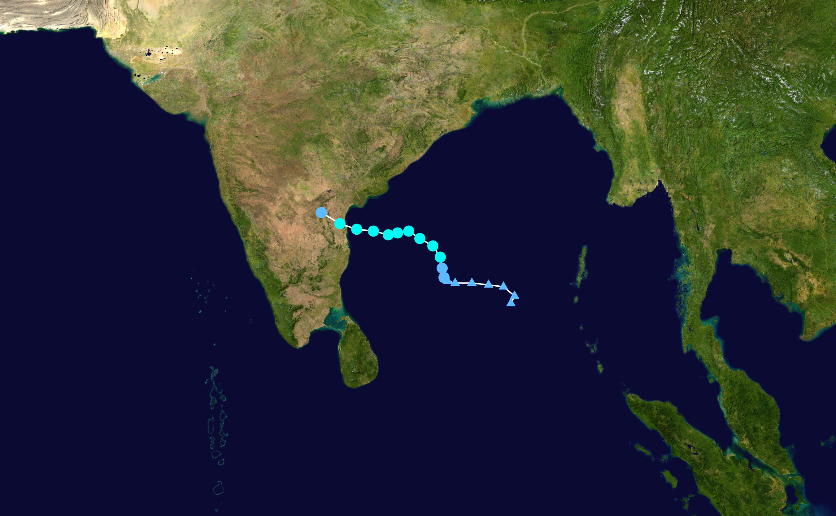 Track map of Cyclonic Storm Khai-Muk of the 2008 North Indian Ocean cyclone season. The points show the location of the storm at 6-hour intervals. The colour represents the storm's maximum sustained wind speeds as classified in the Saffir–Simpson scale (see below), and the shape of the data points represent the nature of the storm, according to the legend below. Saffir–Simpson scale Tropical depression≤38 mph≤62 km/h Category 3111–129 mph178–208 km/h Tropical storm39–73 mph63–118 km/h Category 4130–156 mph209–251 km/h Category 174–95 mph119–153 km/h Category 5≥157 mph≥252 km/h Category 296–110 mph154–177 km/h Unknown Storm type Tropical cyclone Subtropical cyclone Extratropical cyclone / Remnant low / Tropical disturbance / Monsoon depression